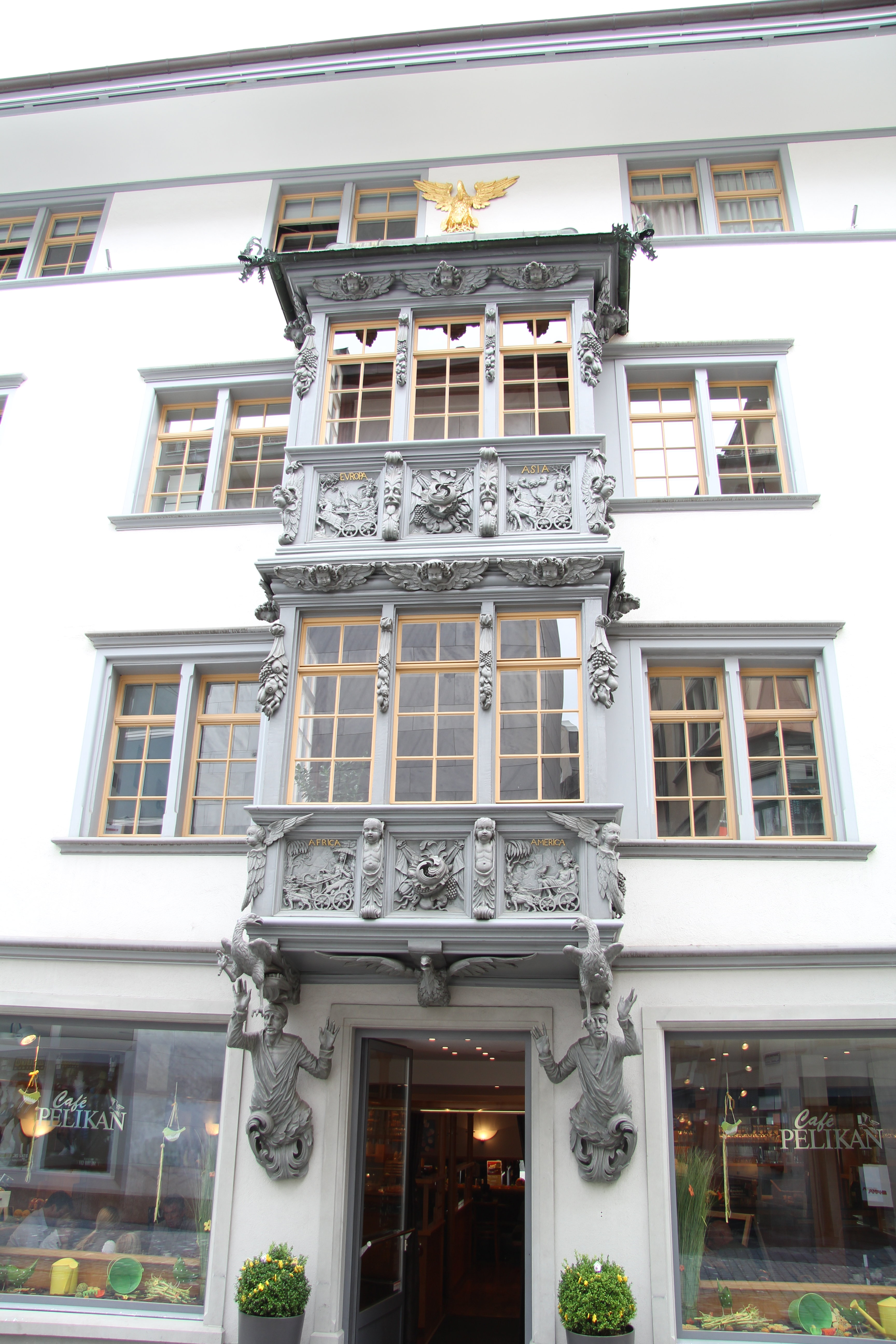 Facade of Café Pelikan in St. Gallen, Switzerland